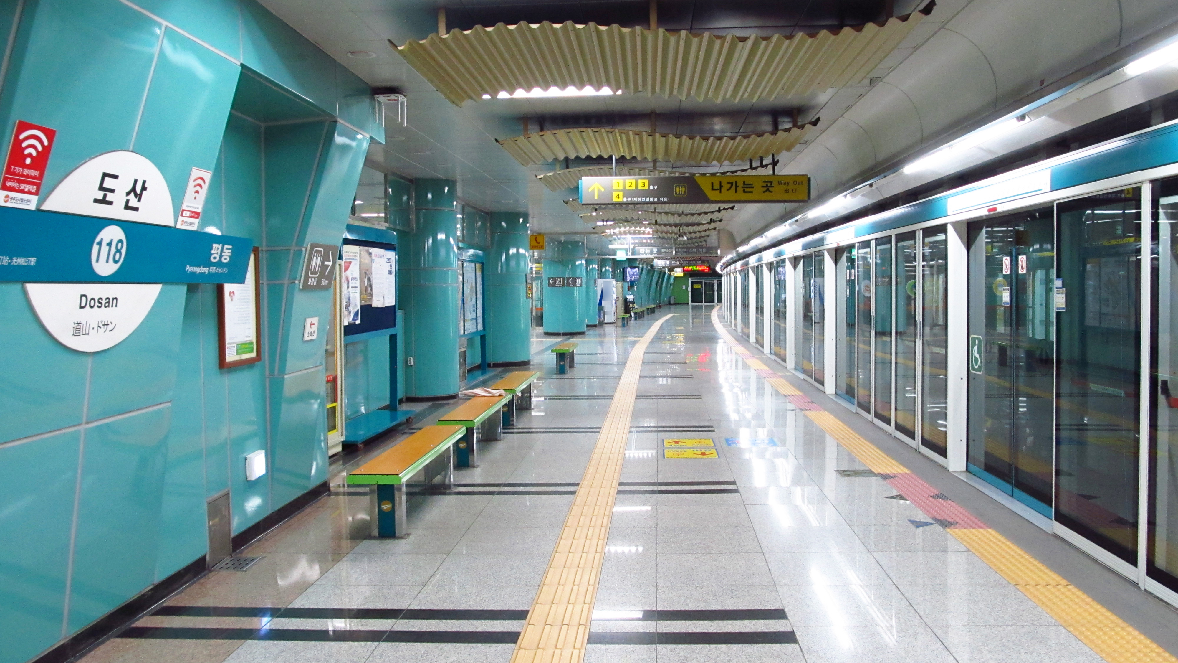 The platform at Dosan Station on Gwangju Metro Line 1 in Gwangsan-gu, Gwangju, Republic of Korea(South Korea)